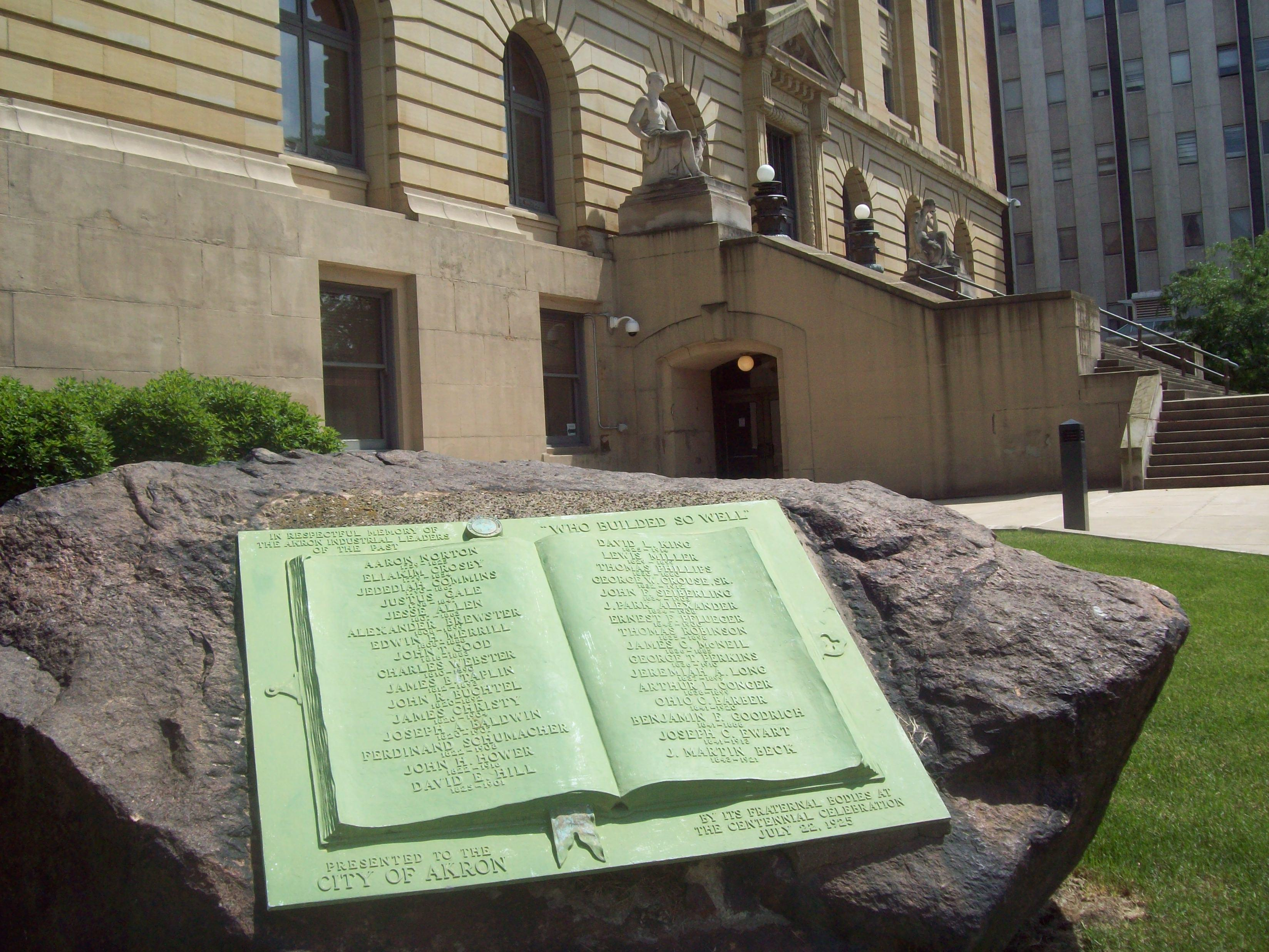 Summit County Courthouse